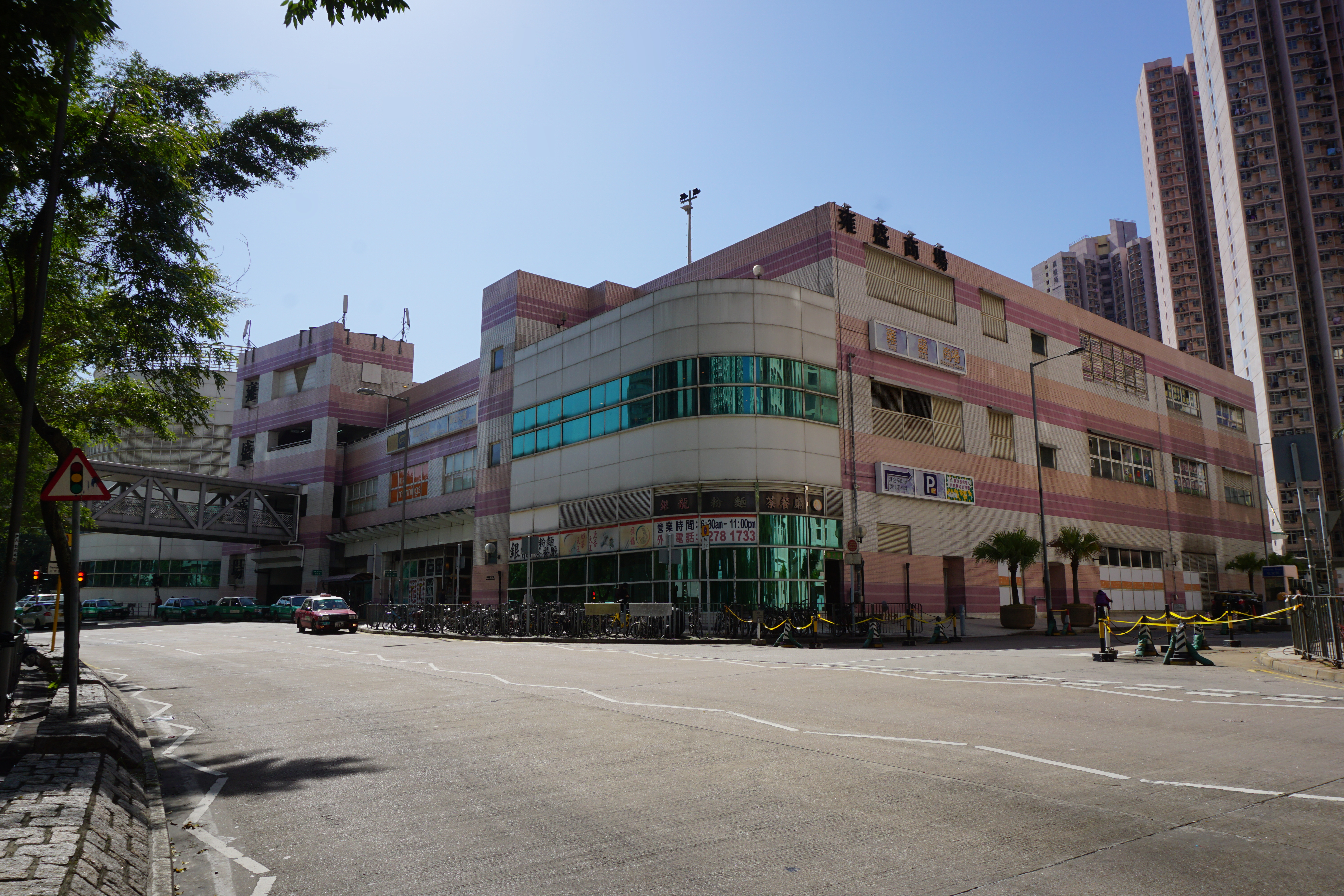 Yung Shing Shopping Centre in Fanling, Hong Kong.